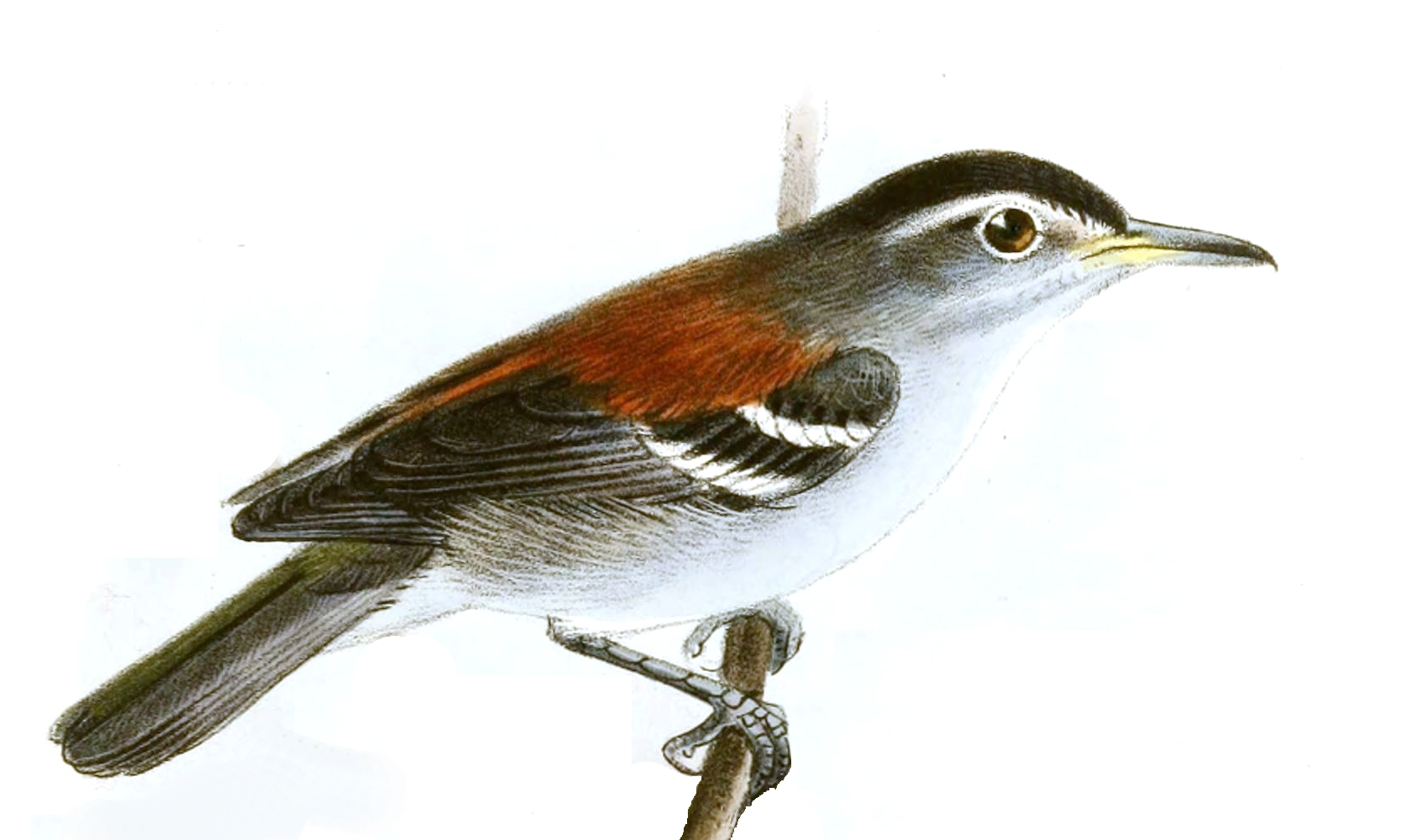 « Terenura spodioptila » = Terenura spodioptila (Ash-winged antwren)